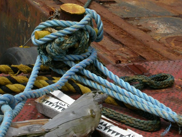 Detail of a sailor's knot.